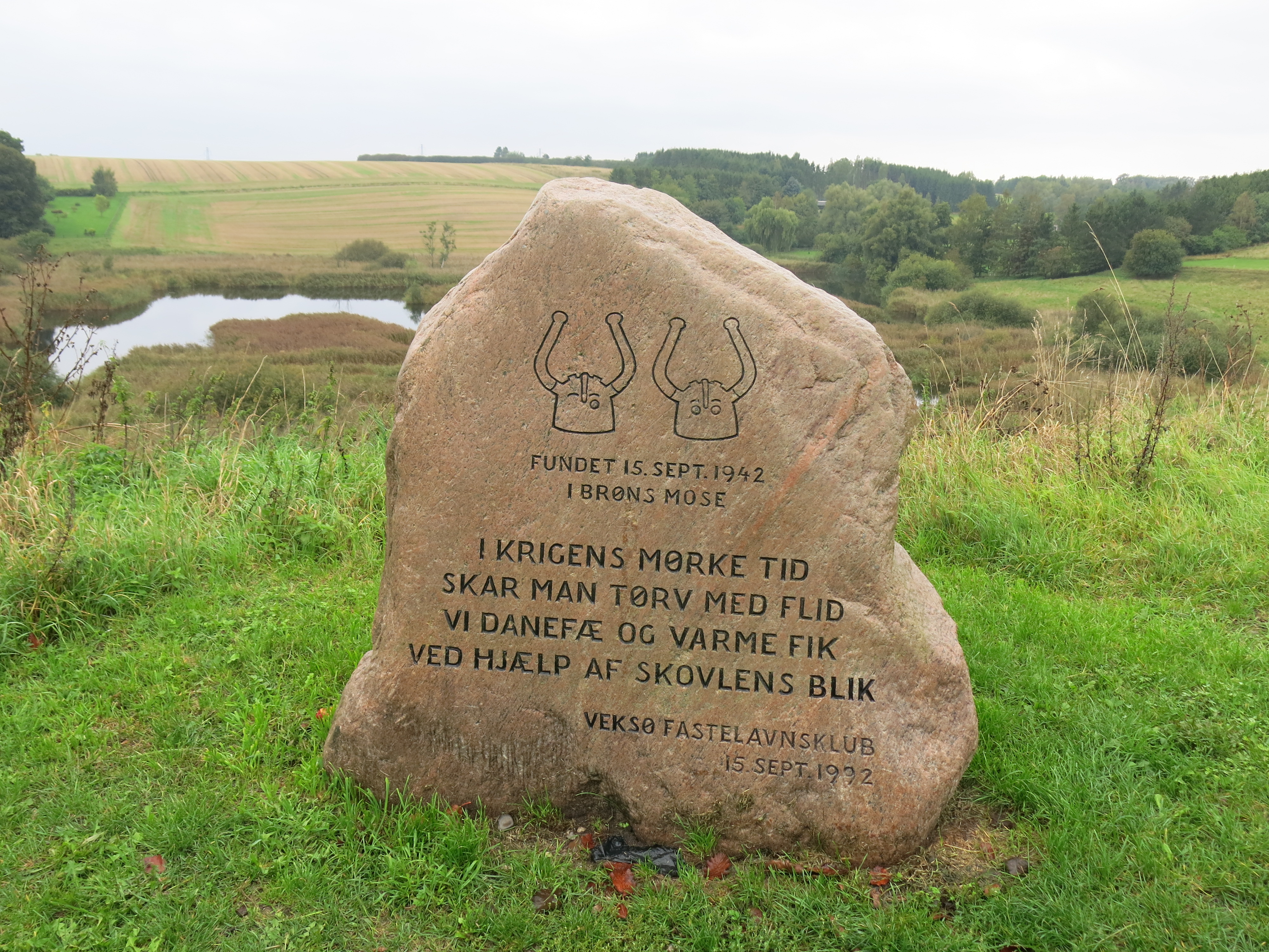 Stone describing the finding of the Veksøhelmets in Brøns Mose during turf digging under the second world war.